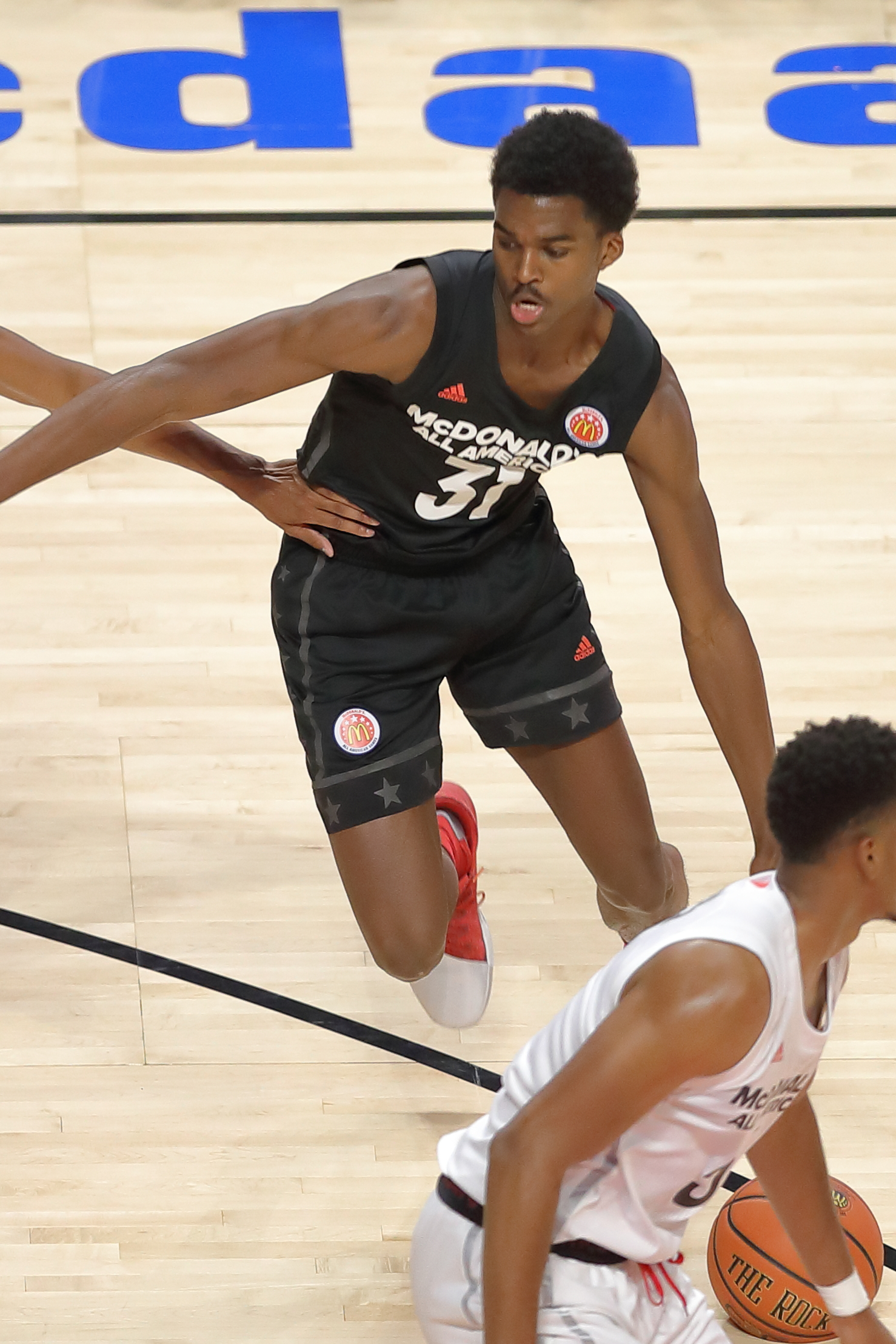 Kris Wilkes slashes at the w:2017 McDonald's All-American Boys Game